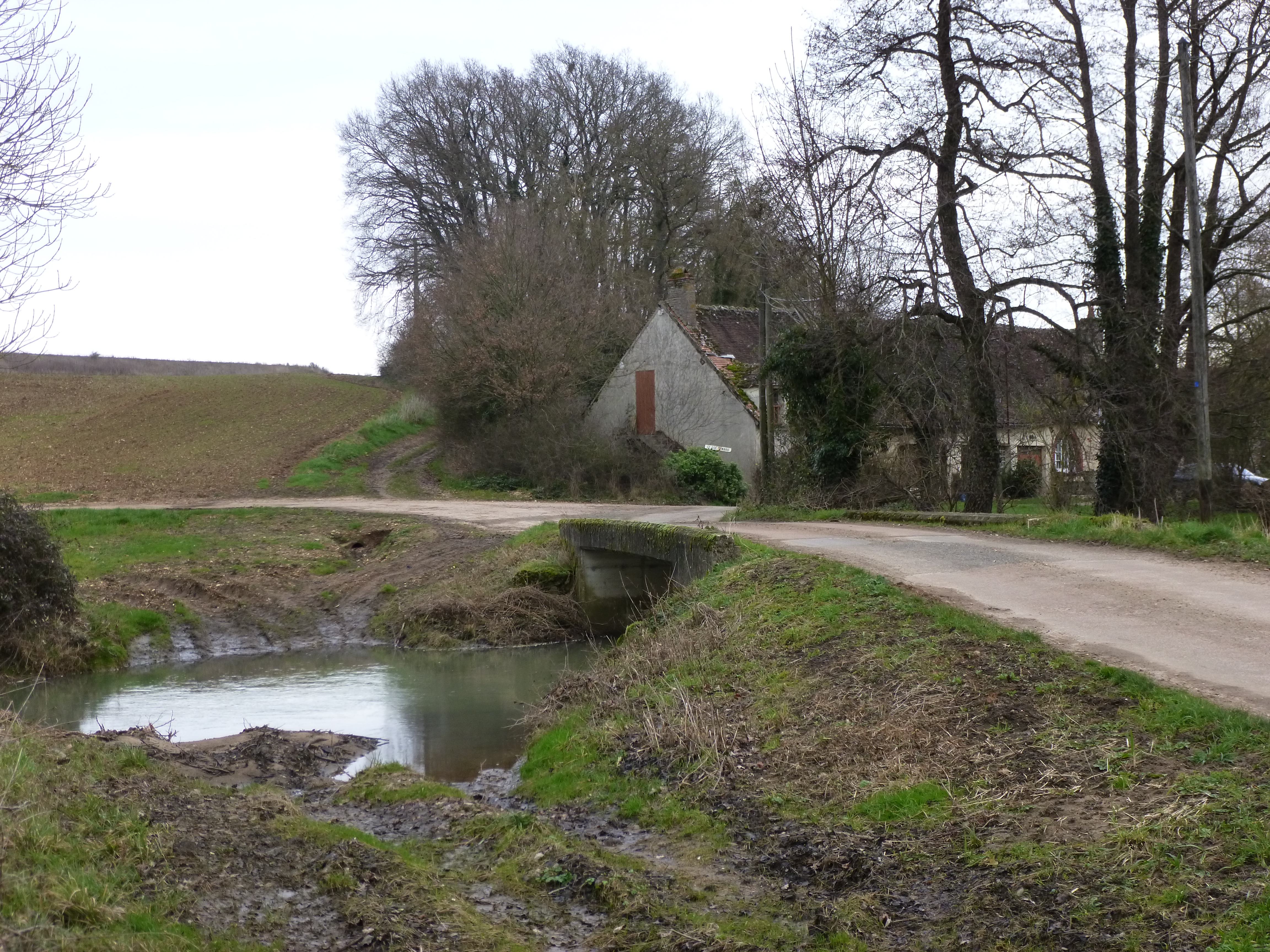 Saint-Maurice-sur-Aveyron, Loiret, région Centre, France. Ford called le gué Pinard on the Aveyron river, on the borderline between the communes of Saint-Maurice and La Chapelle-sur-Aveyron. The land on this side of the bridge, right and left of the road, is in the commune of La Chapelle, as well as the ploughed field on the left of the path which climbes the hill. The hous on the other side of the bridge, on the right of the road, is on the commune of Saint-Maurice.